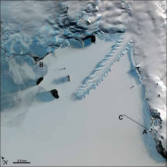 Map of an early 20th-century Antarctic trip superimposed on a much later image. On May 8, 1916, Aeneas Mackintosh and Victor Hayward, members of the Ross Sea party, set out from Hut Point (A), intending to walk across the ice to Cape Evans (B). They disappeared in the area indicated as C, and no trace of them was ever found. In this image, the Erebus ice tongue is shown extending from the Erebus glacier on Ross Island, Antarctica, into frozen McMurdo Sound.